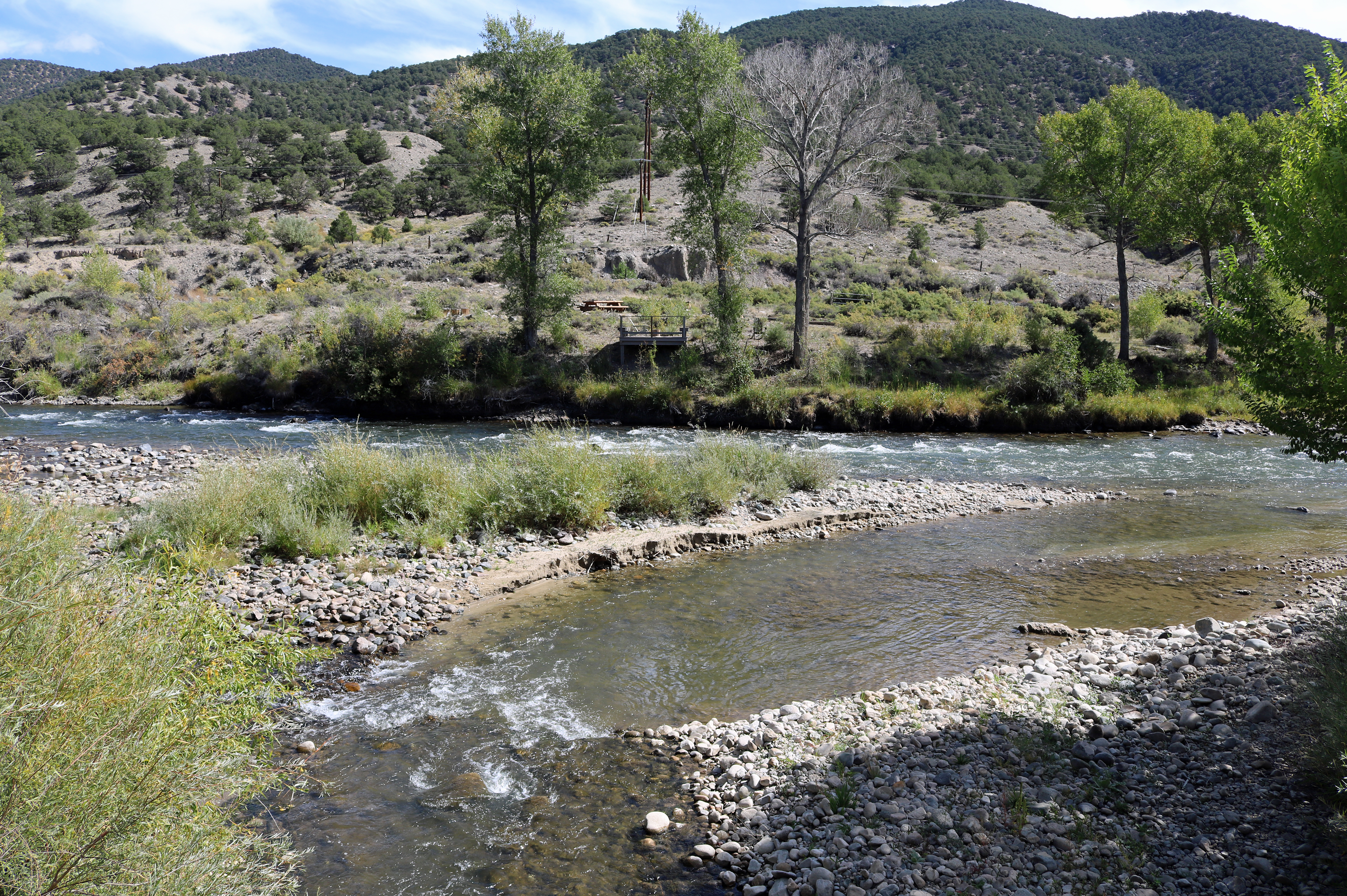 The confluence of the South Arkansas River (bottom of picture) and the Arkansas River (flows left to right in the picture), just south of Salida, Colorado.